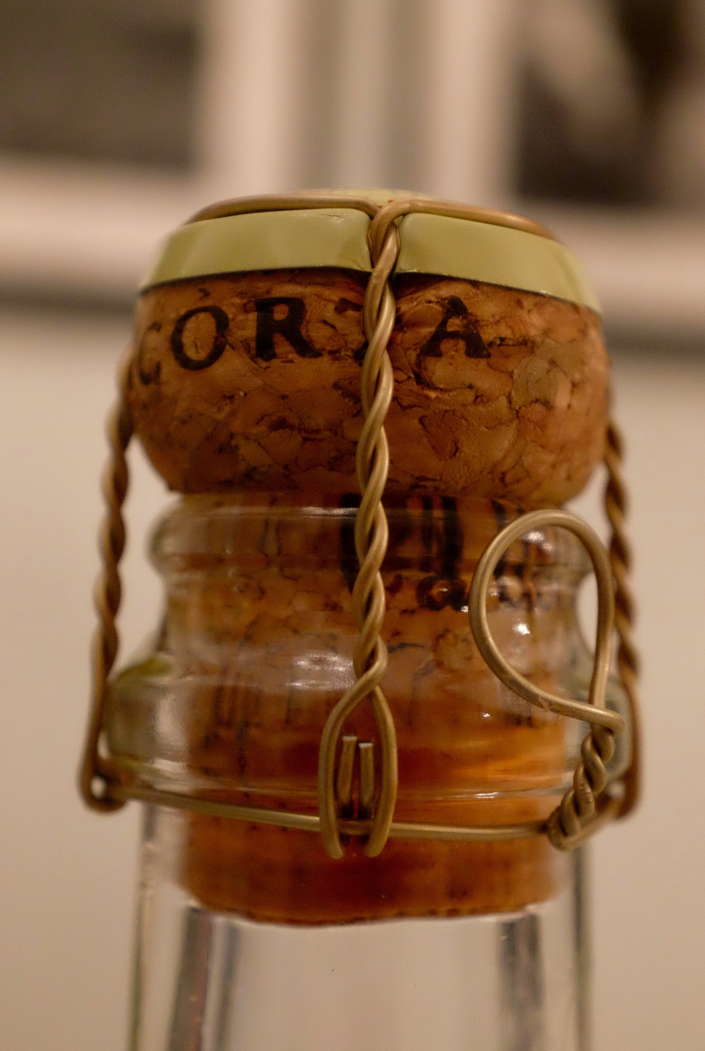 A cage, or muselet, on a bottle of Franciacorta